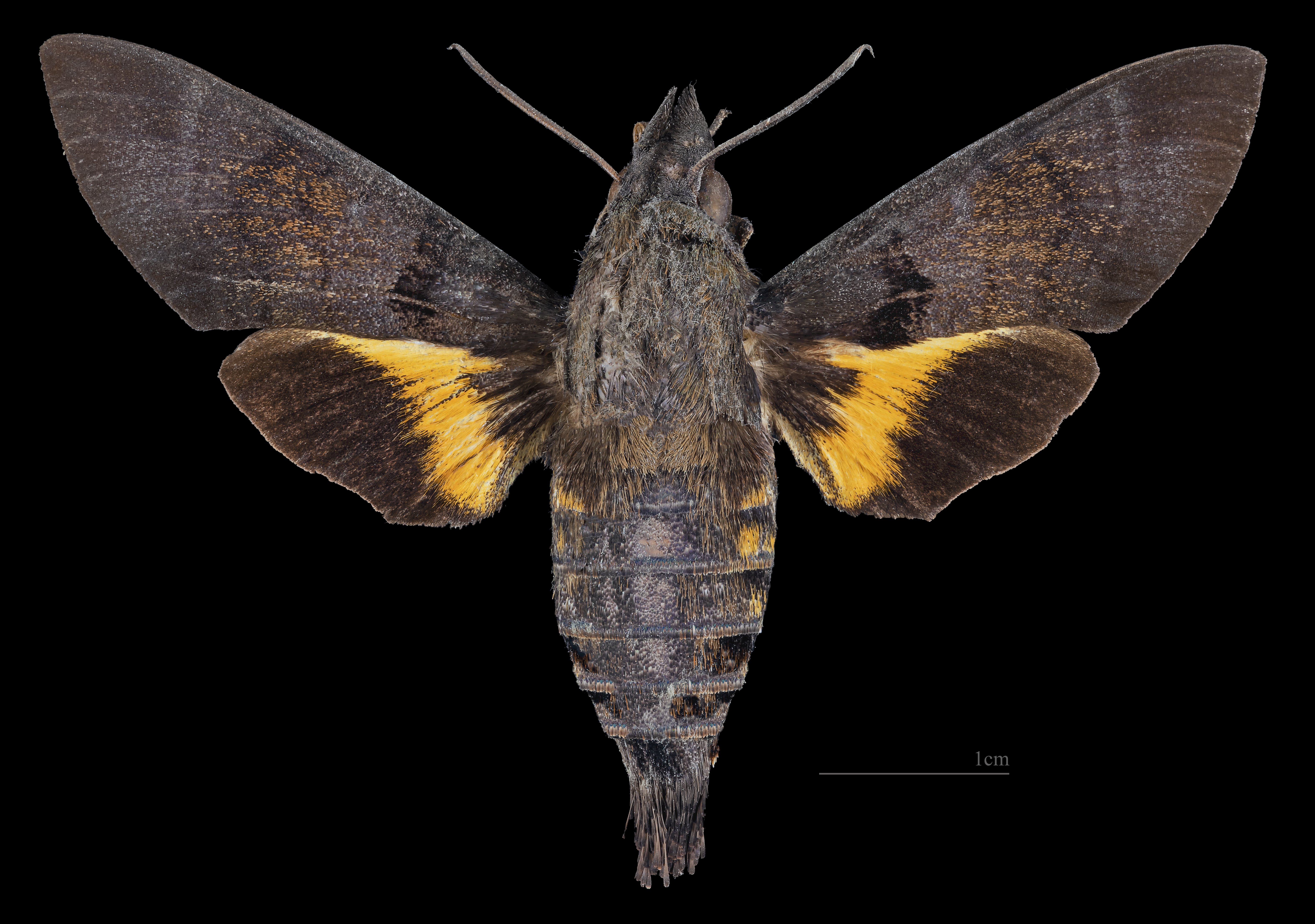 Macroglossum nigellum - Dorsal side Collection of the Mathematician Laurent Schwartz